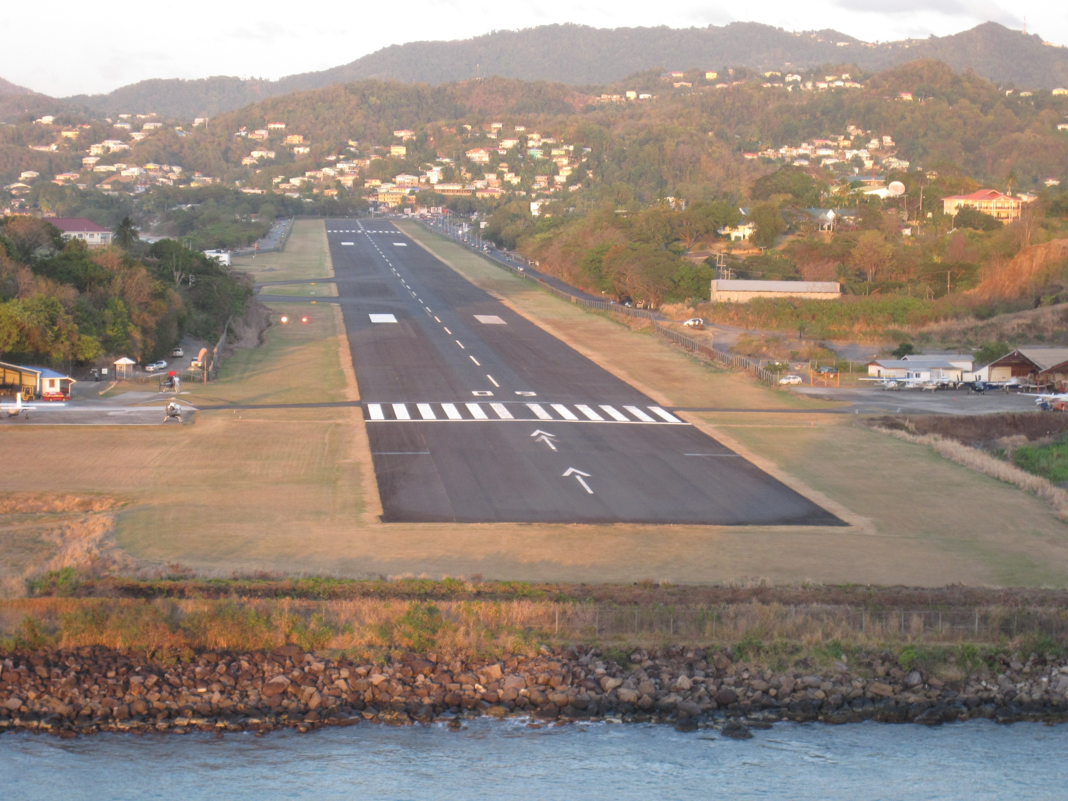 George F.L Charles Airport, Castries St Lucia, Runway View